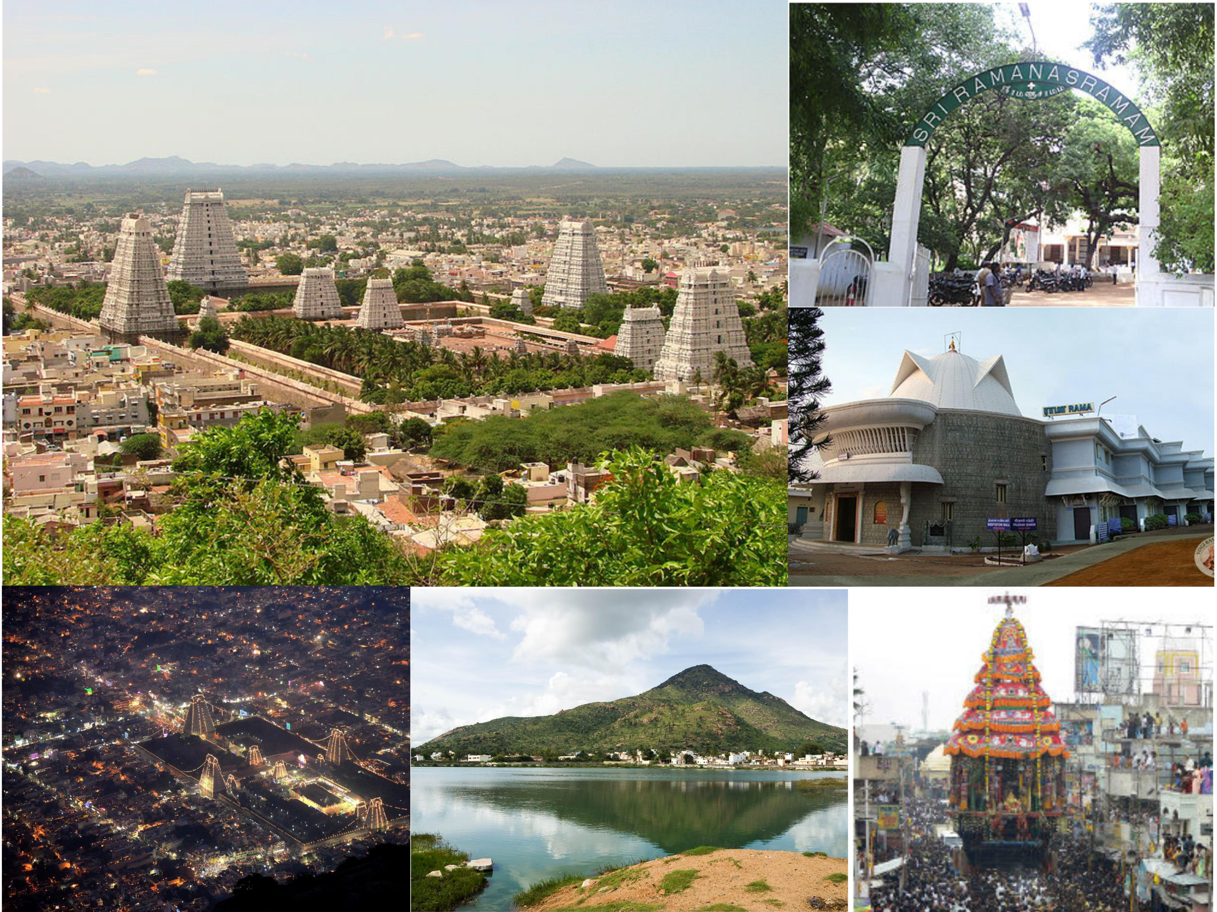 collage of pictures representing Tiruvannamalai town